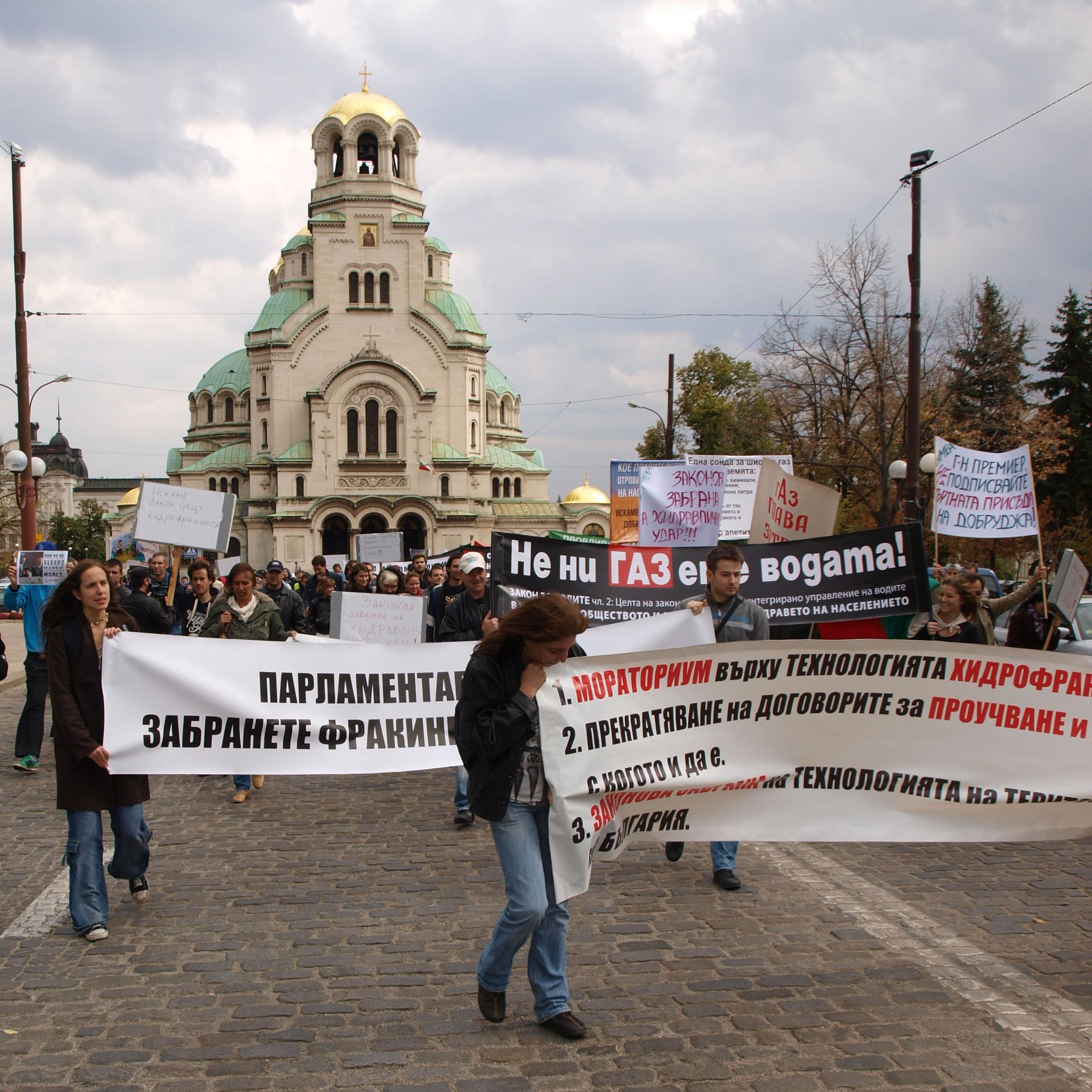 Protests against shale gas drilling in Bulgaria